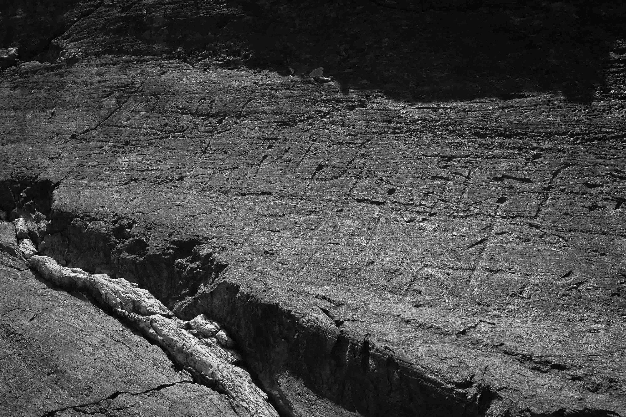 Parco Grosio; Rupe Magna; engravings